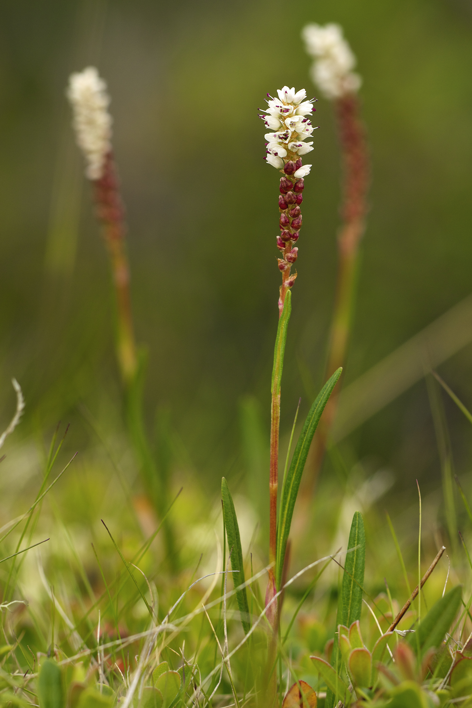 Viviparous Knotweed (Bistorta vivipara), Grimsdalen, Rondane National Park, Norway